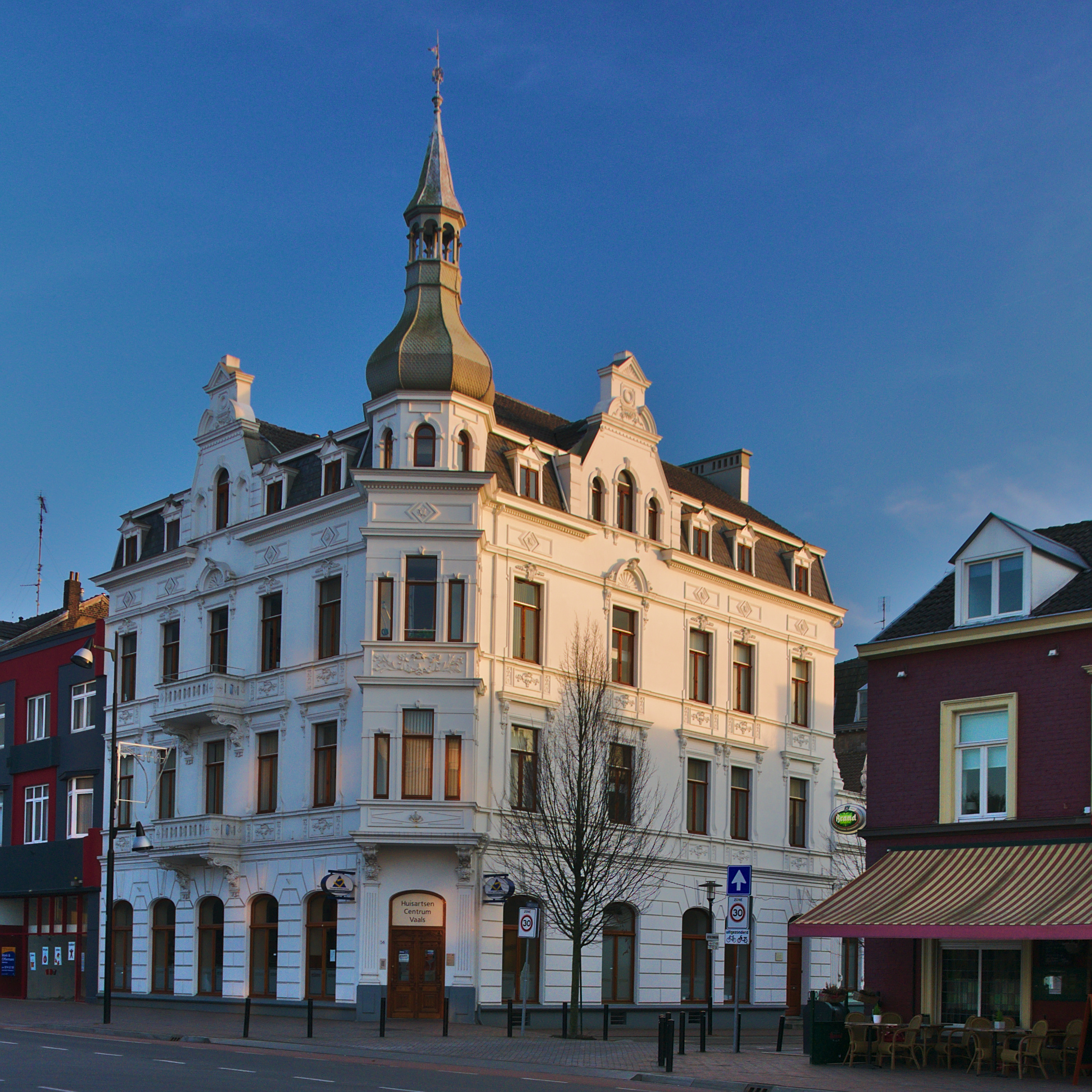 House on Maastrichterlaan 58, Vaals